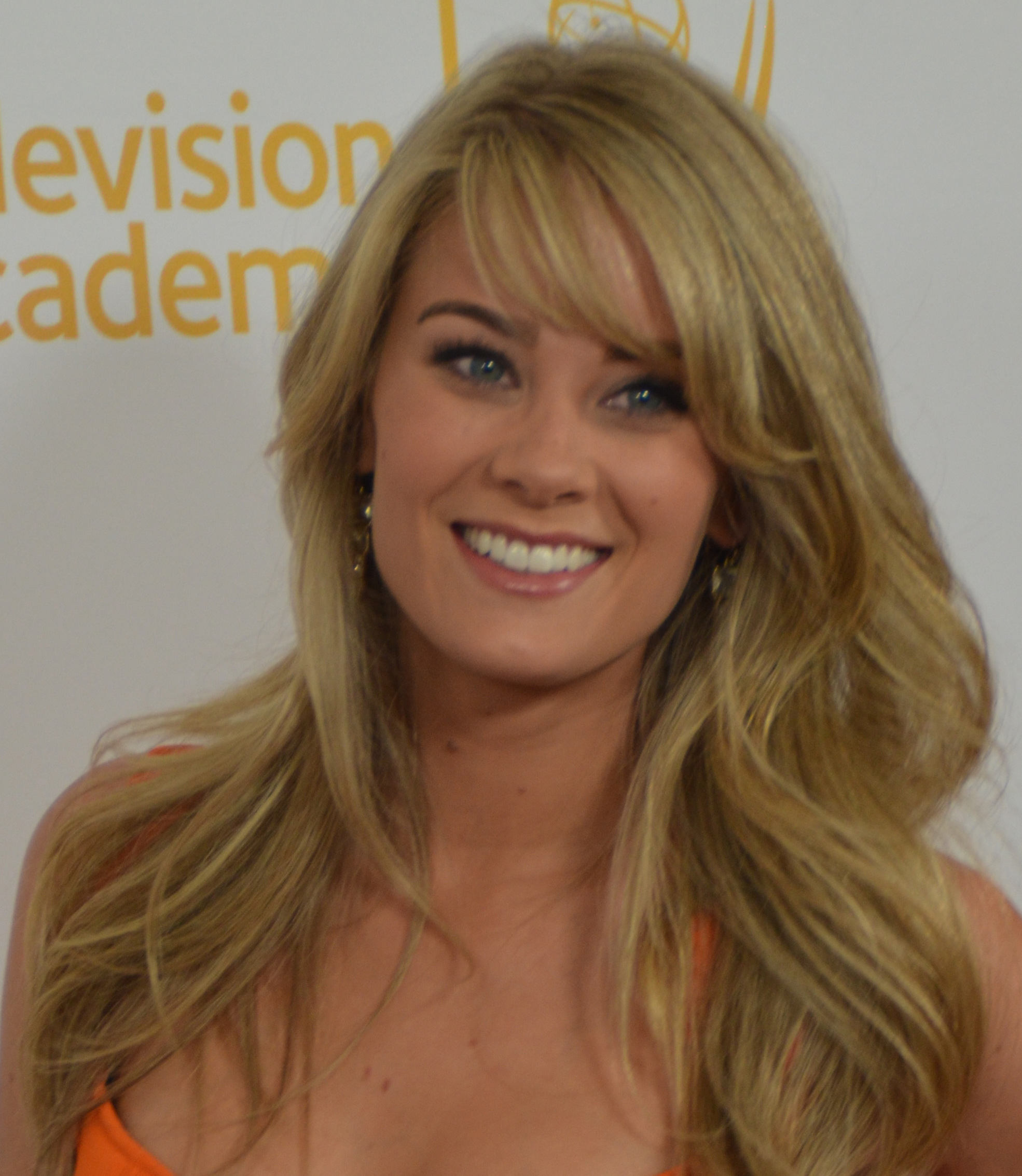 Kim Matula Mingle Media TV and Red Carpet Report host Ashley Harrington were invited to cover the 2014 Daytime Emmy® Awards Nominees Cocktail Reception Hosted by the Television Academy’s Daytime Programming Peer Group Governors at the London West Hotel in Hollywood.